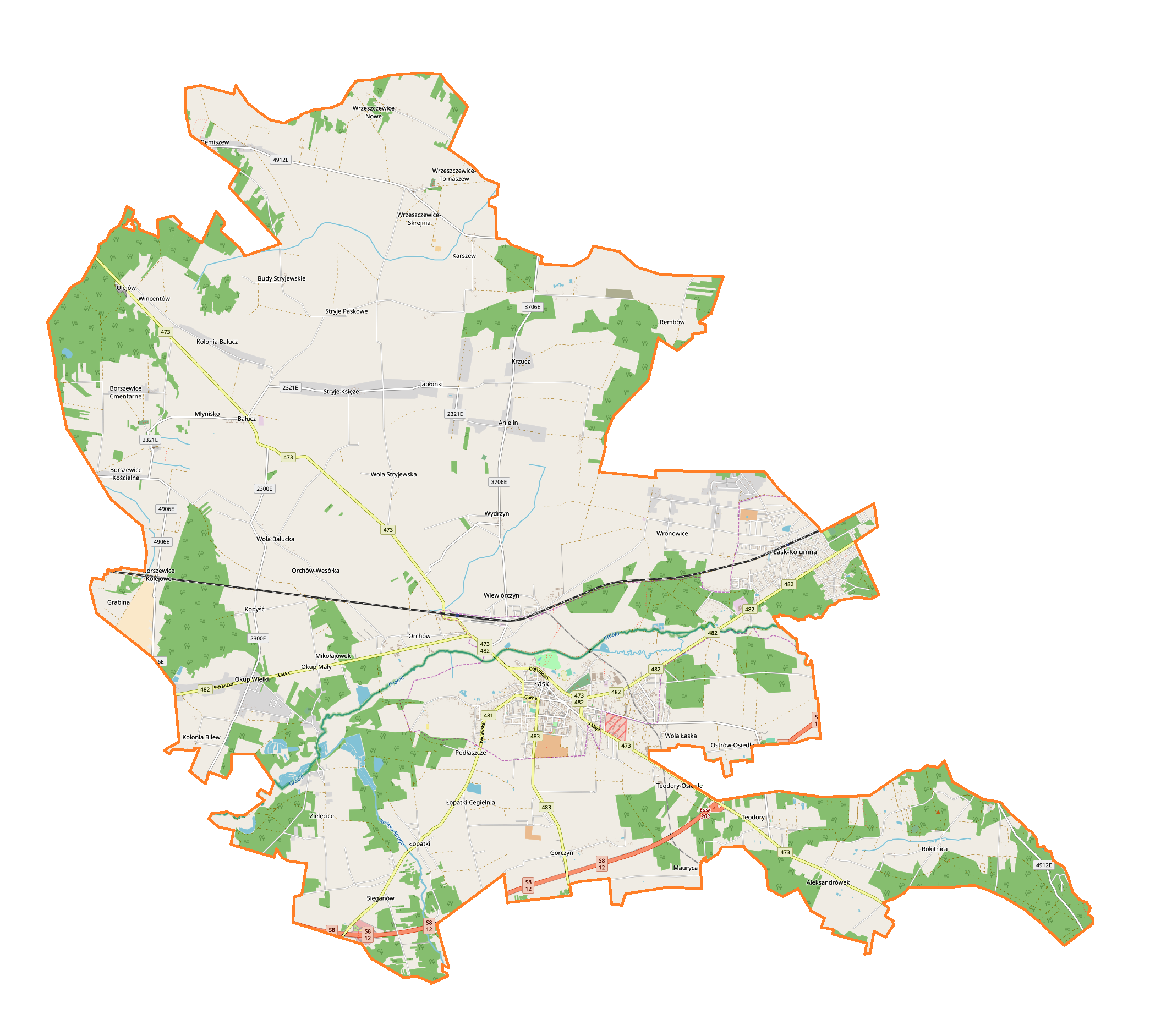 Location map